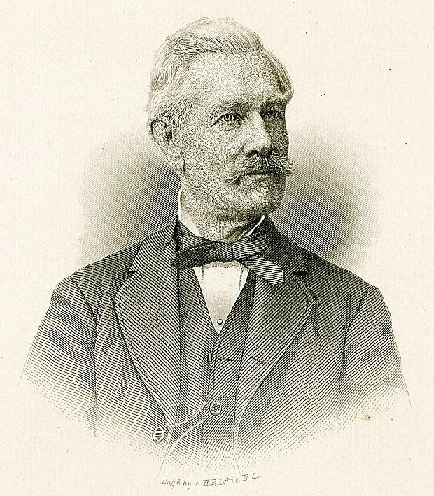 James G. Lindsley, Congressman from New York